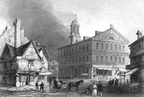 Illustration of Dock Square, Boston; Arthur's Magazine, 1845